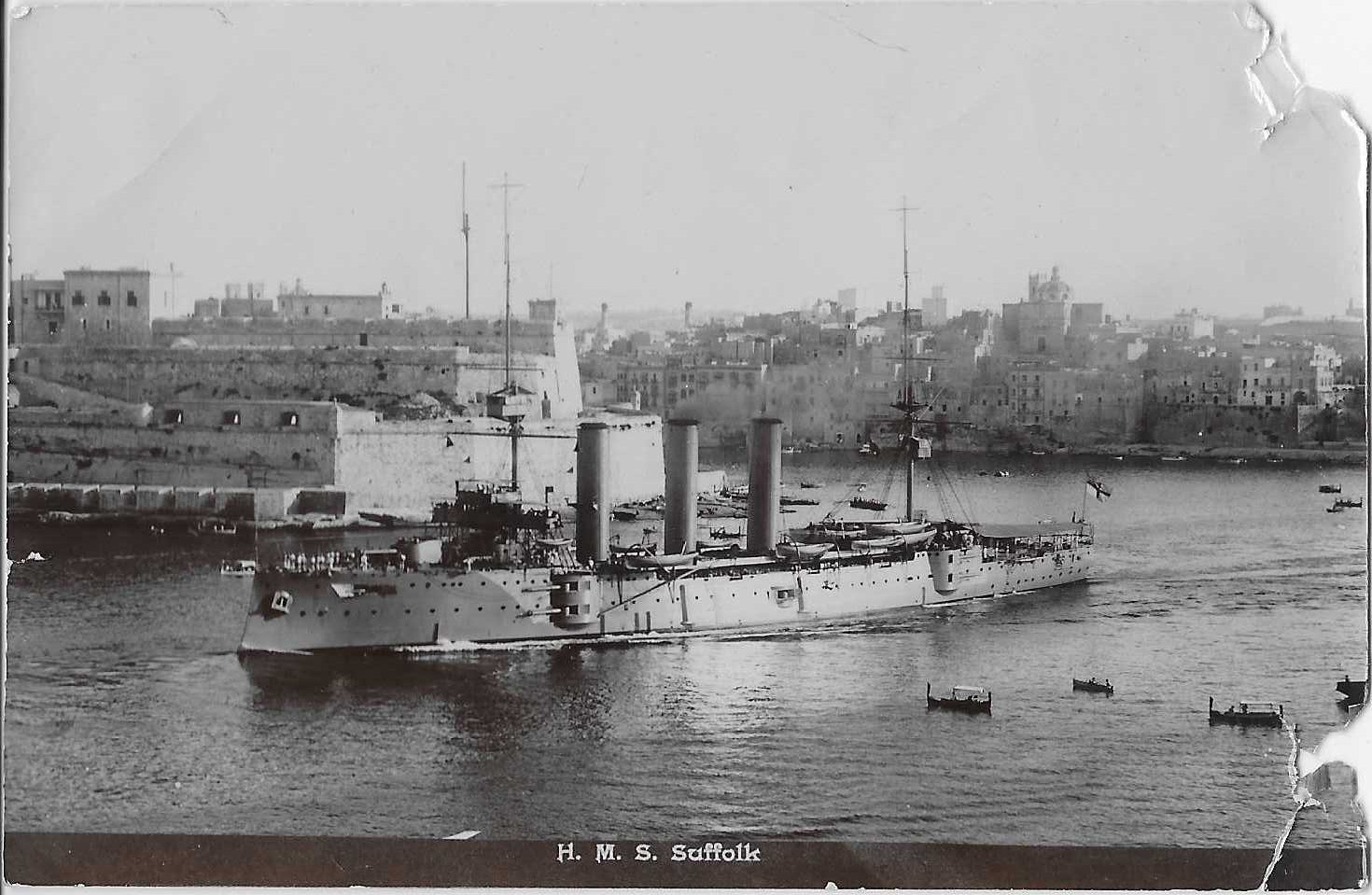 HMS Suffolk launched 1903 scrapped 1920. Photograph from the estate of Captain Hunt who was a neighbour who passed away in 1960. Place is Malta for sure.